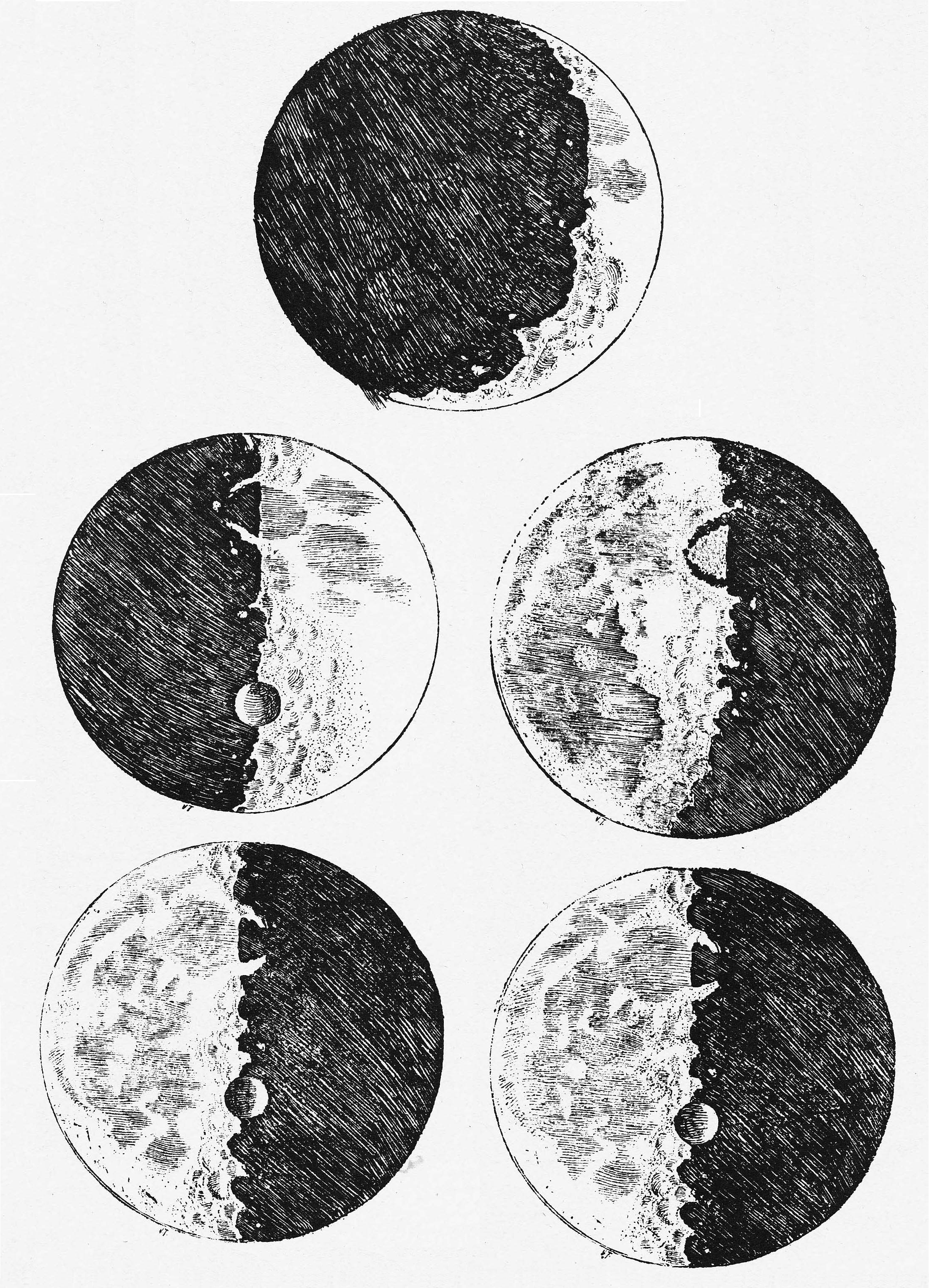 Galileo's sketches of the moon from Sidereus Nuncius, published in March 1610.